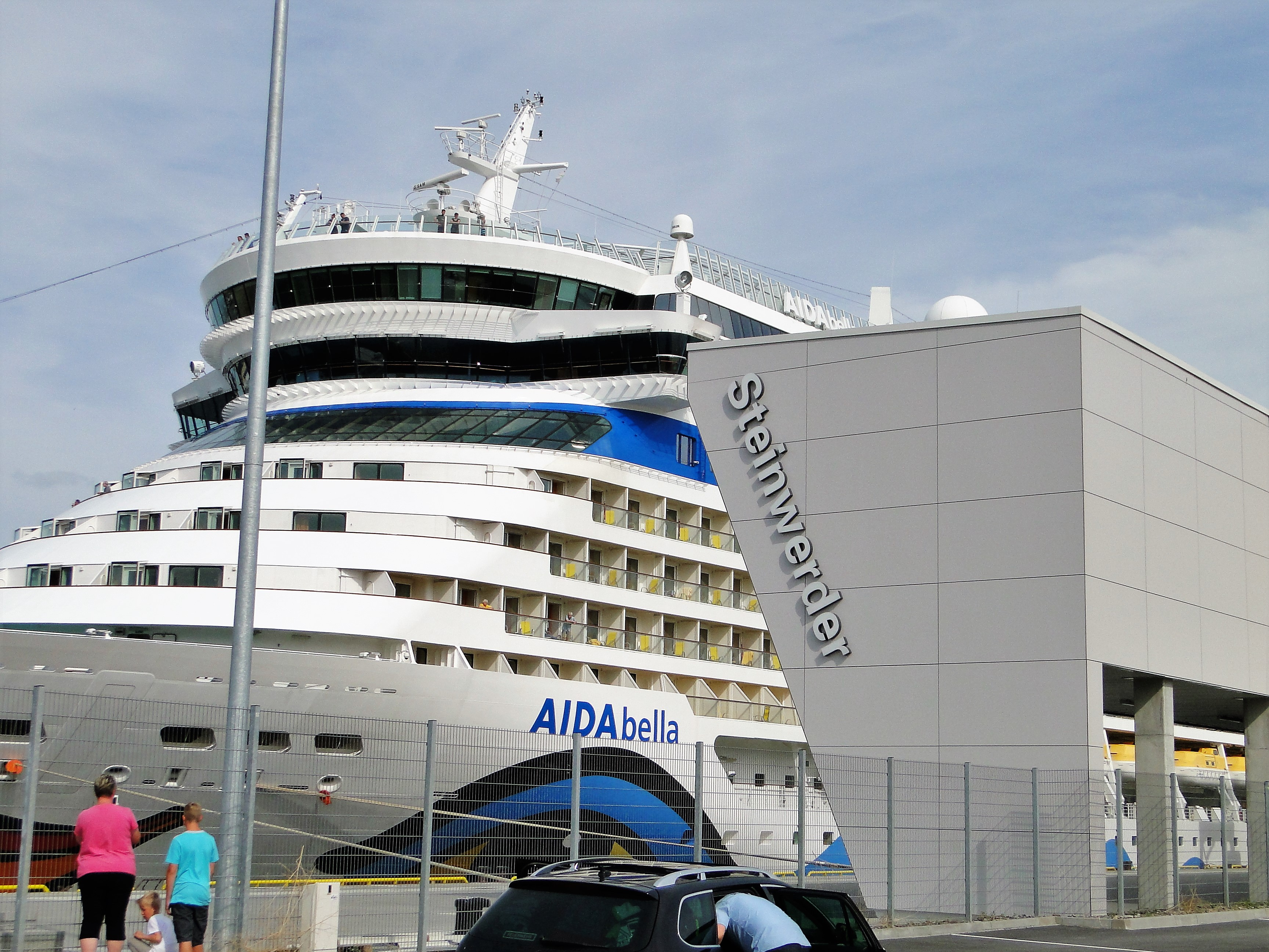 Hamburg Cruise Center Steinwerder